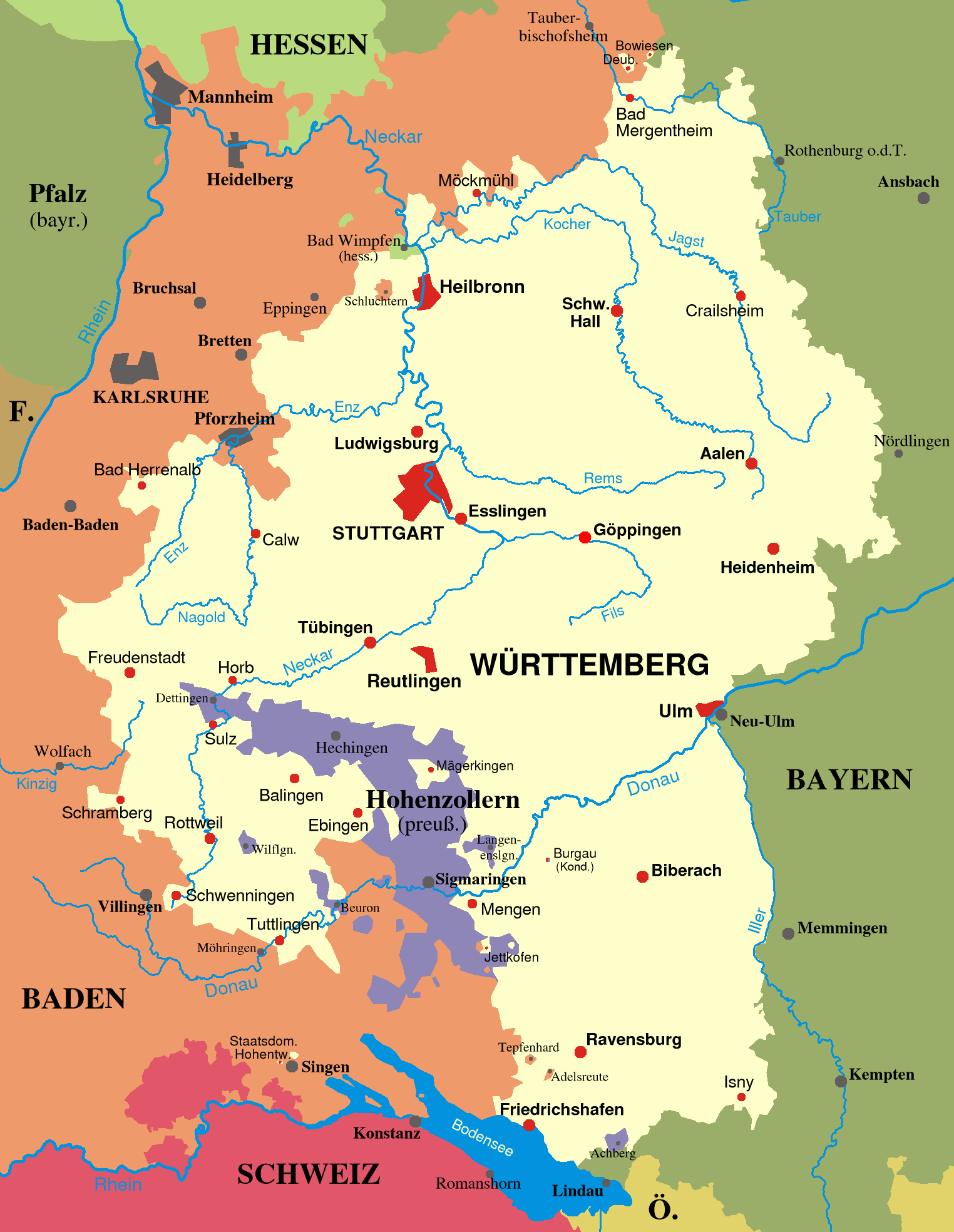 Map of Württemberg from 1810-1945.